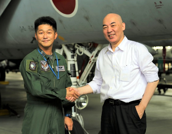 Naoki Hyakuta, television writer, met a self-defense official at Naha Airbase, Air Self-Defense Force in Naha City, Okinawa Prefecture on October 29, 2017.